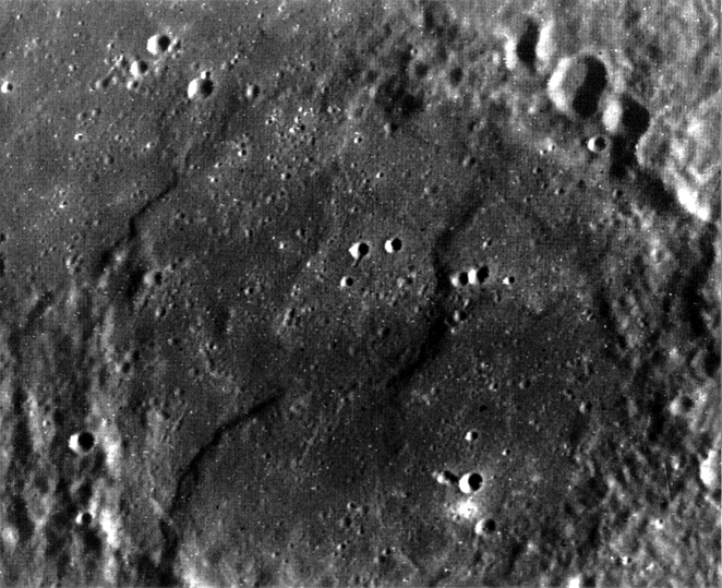 Mariner 10 image showing scarps in the southeast Tir Planitia region of Mercury. These scarps may be volcanic flow features or compressional faults. This image was taken during the first flyby. North is up, the scarps trend from southwest to northeast. The frame is about 130 km across. (Mariner 10, Atlas of Mercury, Fig. 8-10). The mission image number is 0000062.